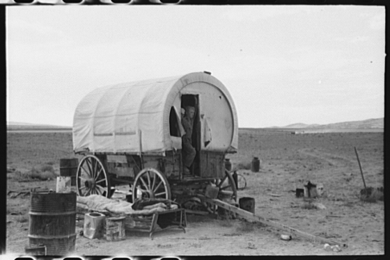 Oneida County, Idaho. Son of a dry-farmer. Covered wagon